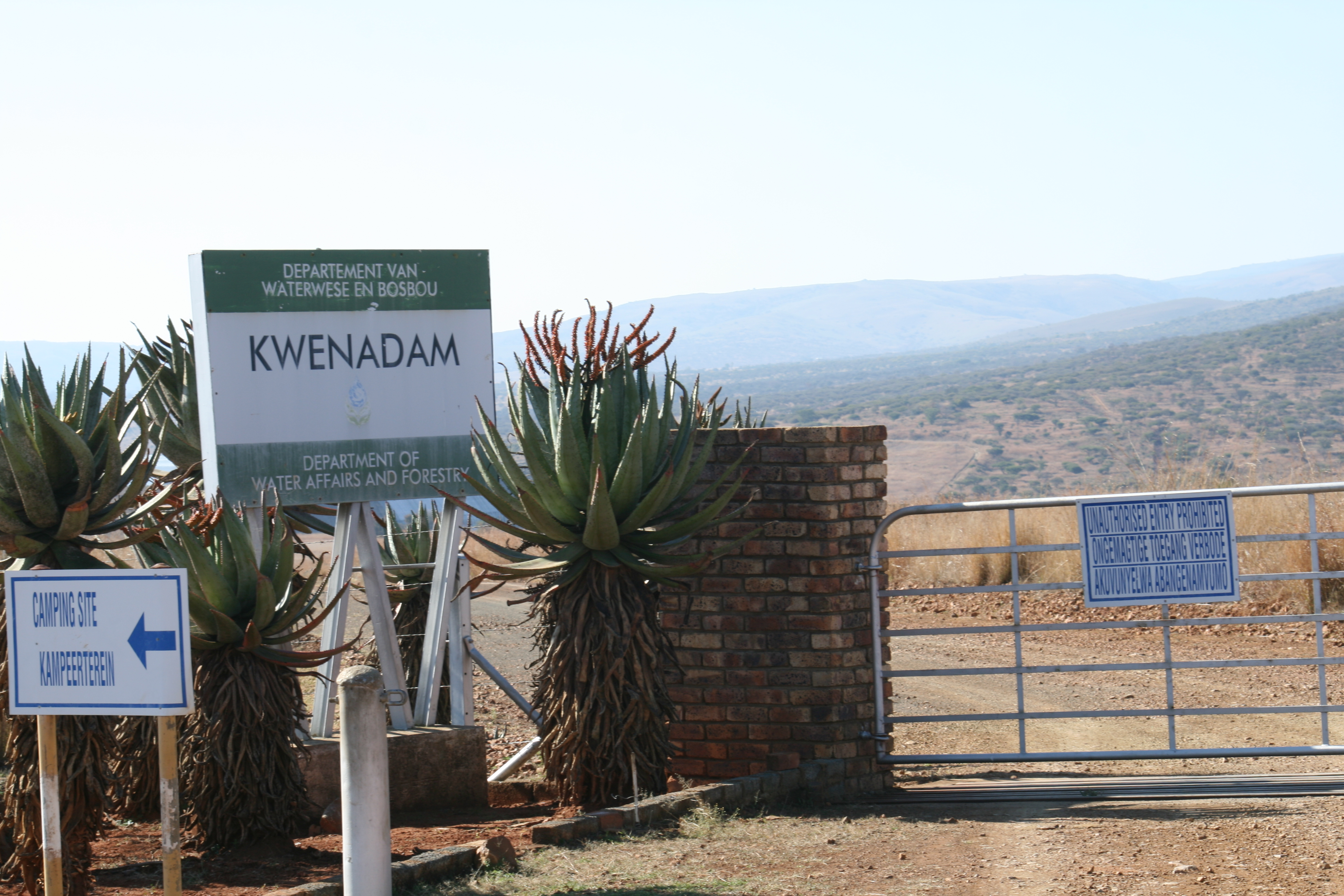 Entrance to Kwena Dam, Mpumalanga, South Africa